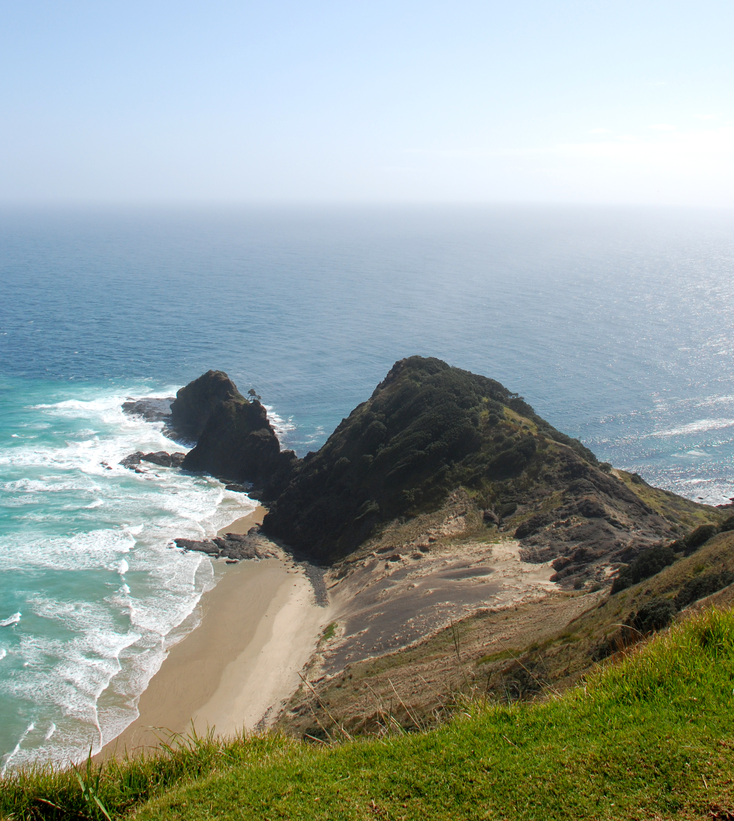 Cape Reinga, Northland, New Zealand, October 2007